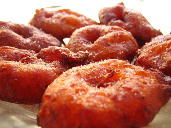 Pumpkin doughnuts called Bunyols, typical of mediterranean Spain